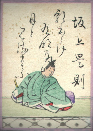 A portrait of Sakanoue no Korenori; illustration from an uta-garuta playing card for Hyakunin Isshu, created in the Edo period.